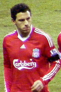 Maxi Rodríguez playing for Liverpool